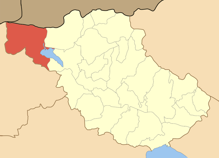 Locator map of Kerkinis municipality in Serres perfecture in Greece.